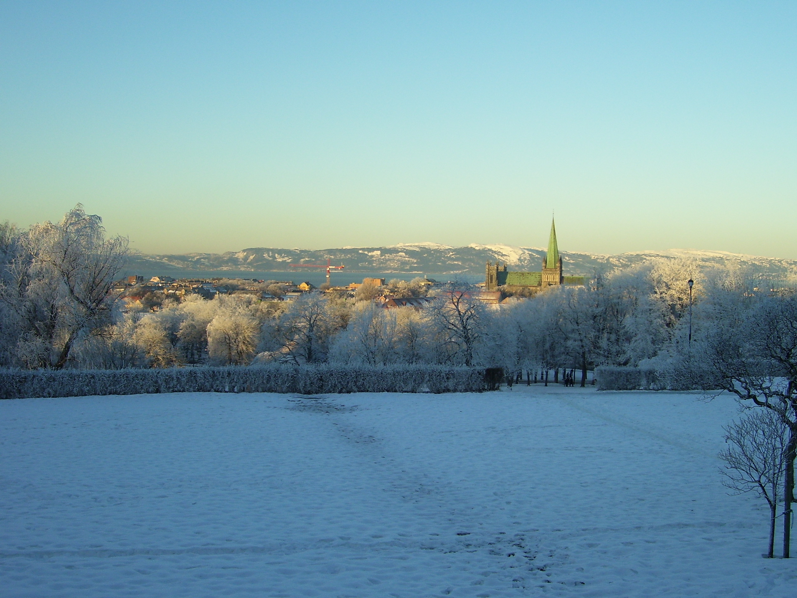 A wide sight of Trondheim, from the Gloshaugen University campus